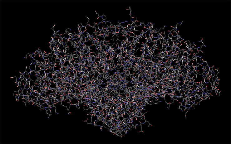 Model of the Alkaline phosphatase created using ViewMol3D program. Author: Andrew Ryzhkov URL